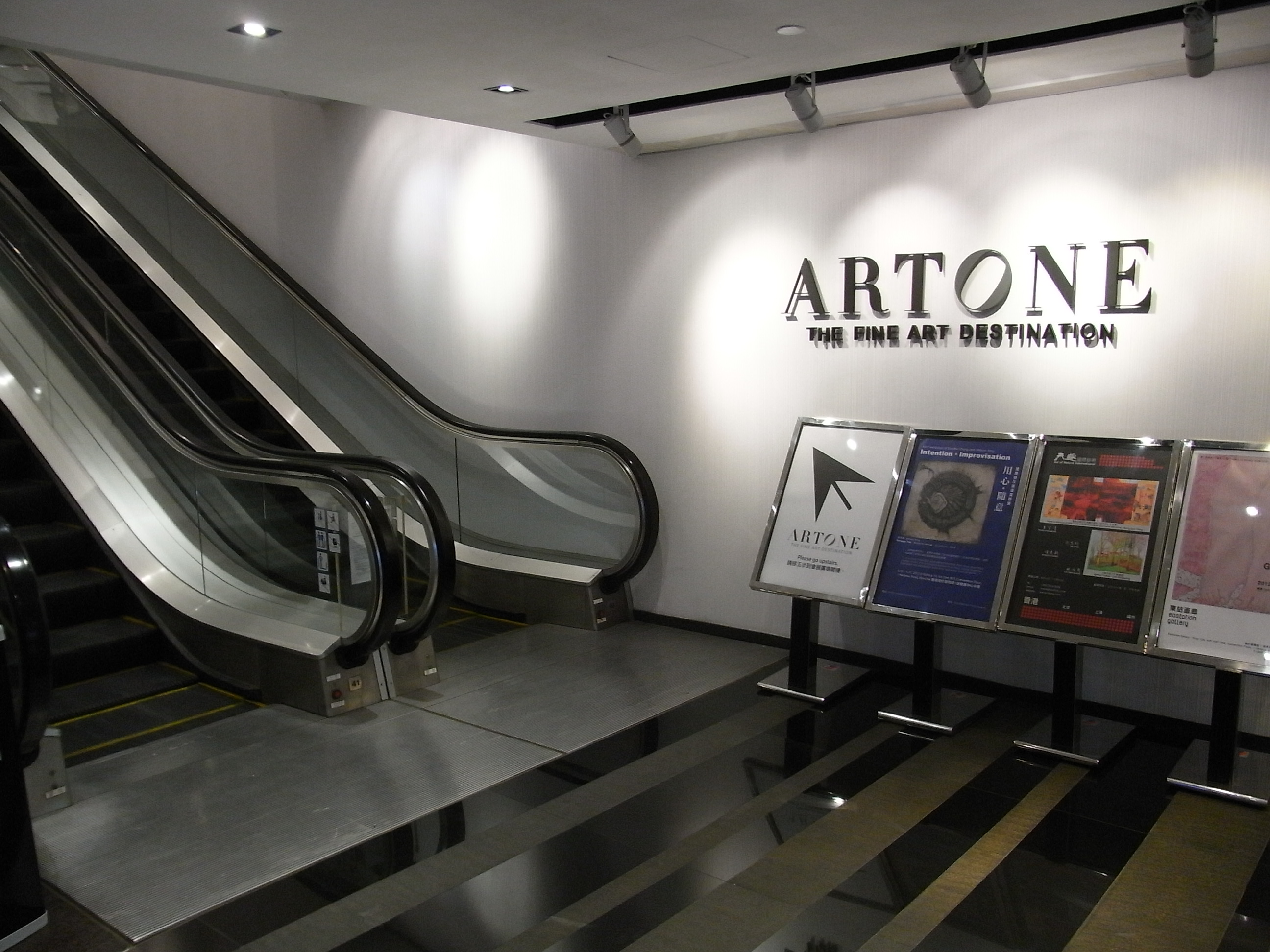 會展廣場辦公大樓基座商場, ArtOne at Convention Plaza, Harbour Road, Wan Chai North, Hong Kong